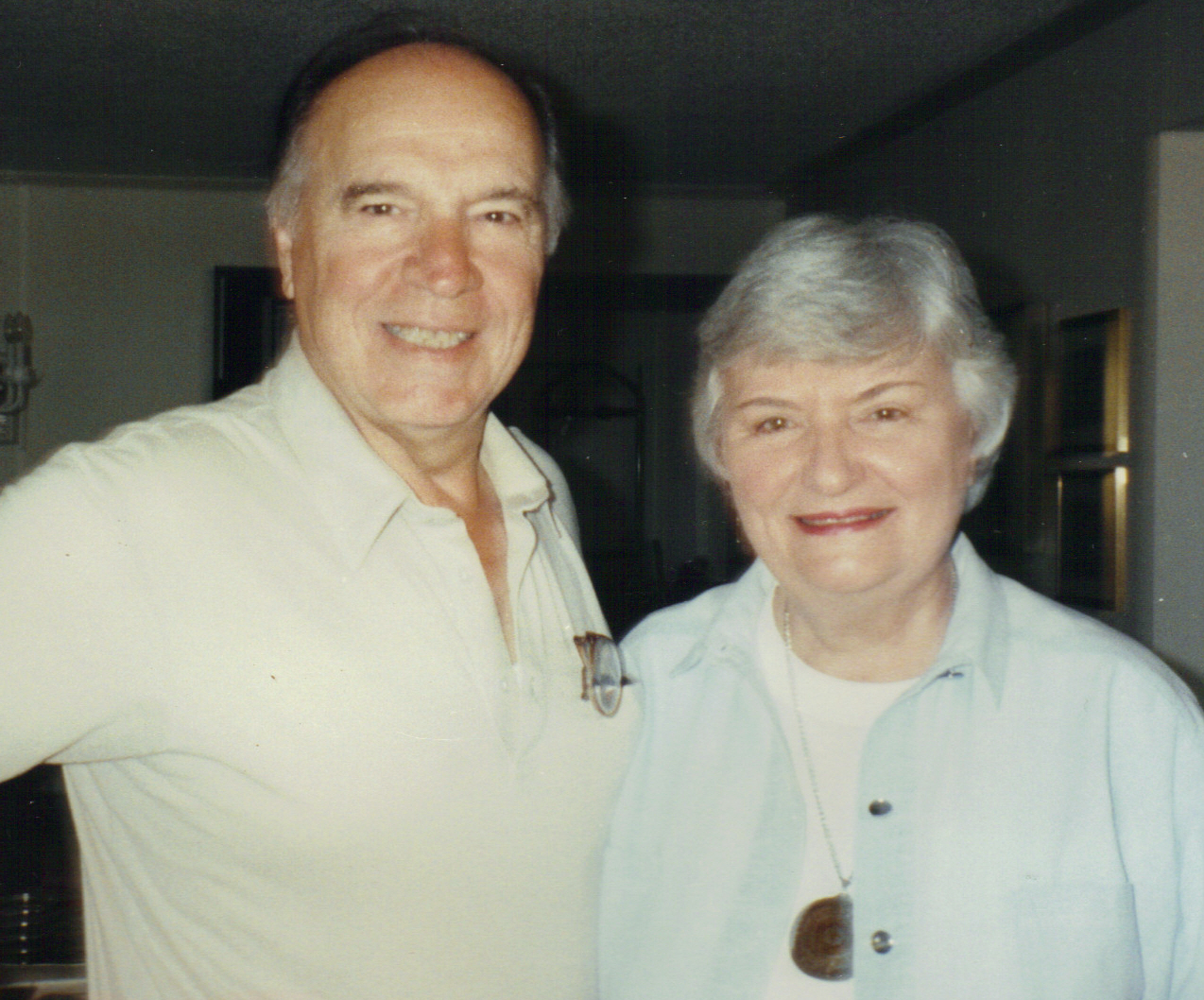 A picture of Franco and Jean Ventriglia in their home.